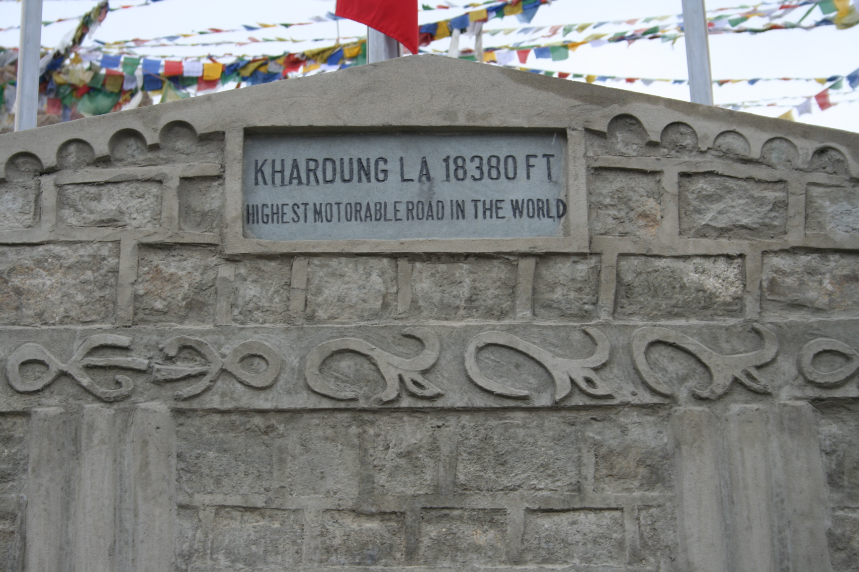 Muthuselvi Kannaiyan, Photo taken during our trip to Pangong Lake